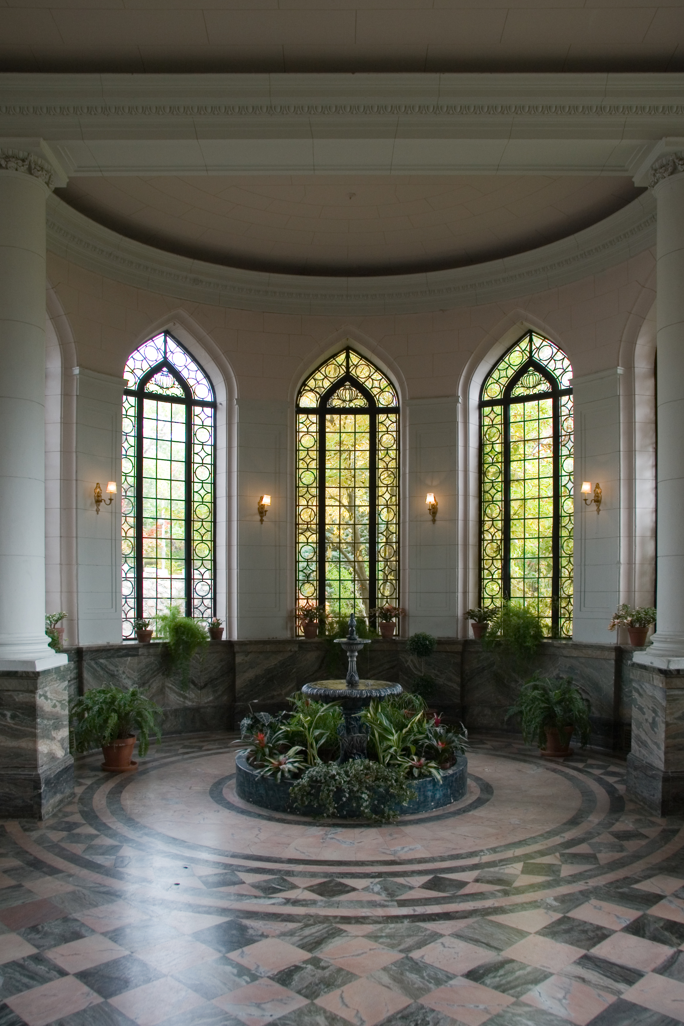 The Conservatory at Casa Loma, 1 Austin Terrace, Toronto, Ontario, Canada.